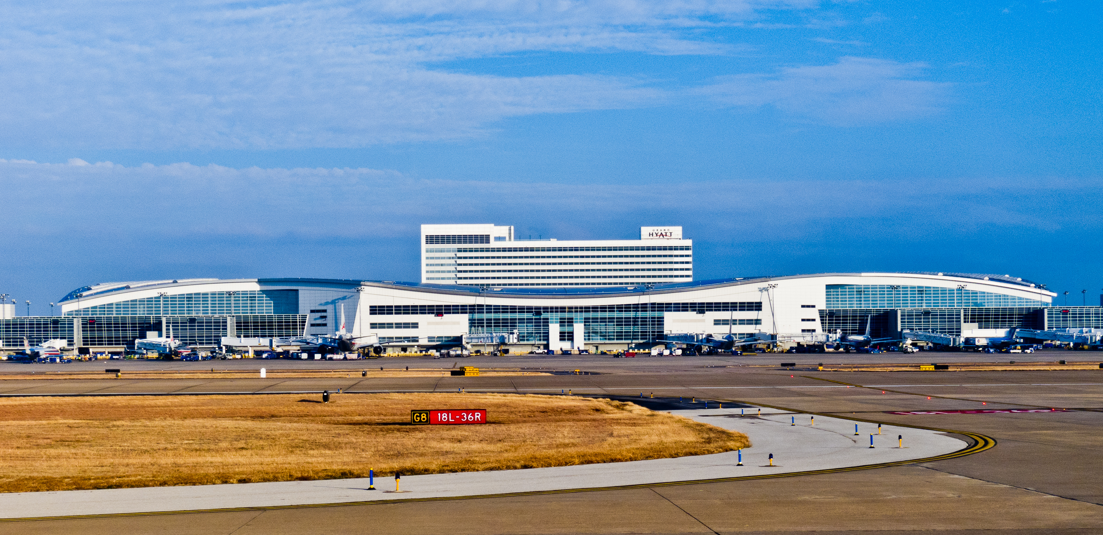 Terminal D and Grand Hyatt Hotel at Dallas Fort Worth International Airport